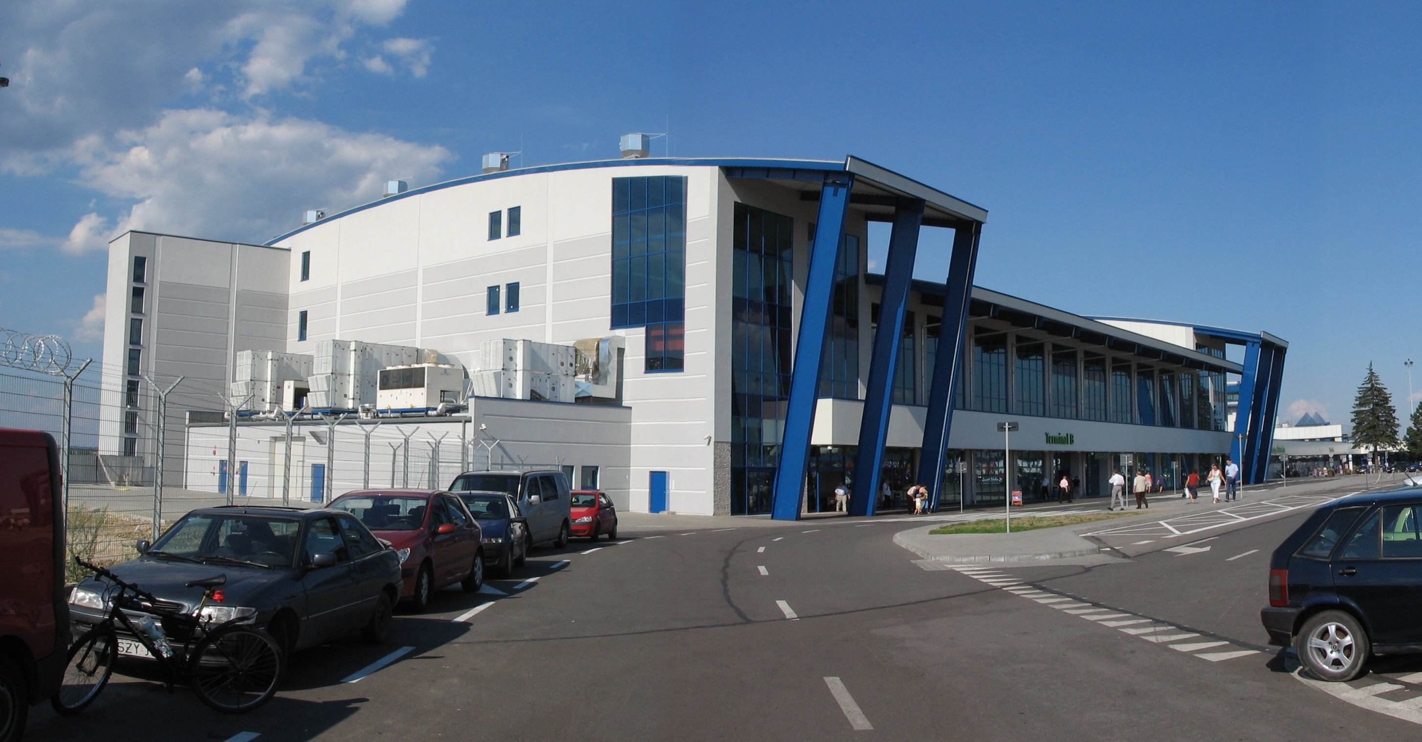 Katowice International Airport in Pyrzowice - terminal B